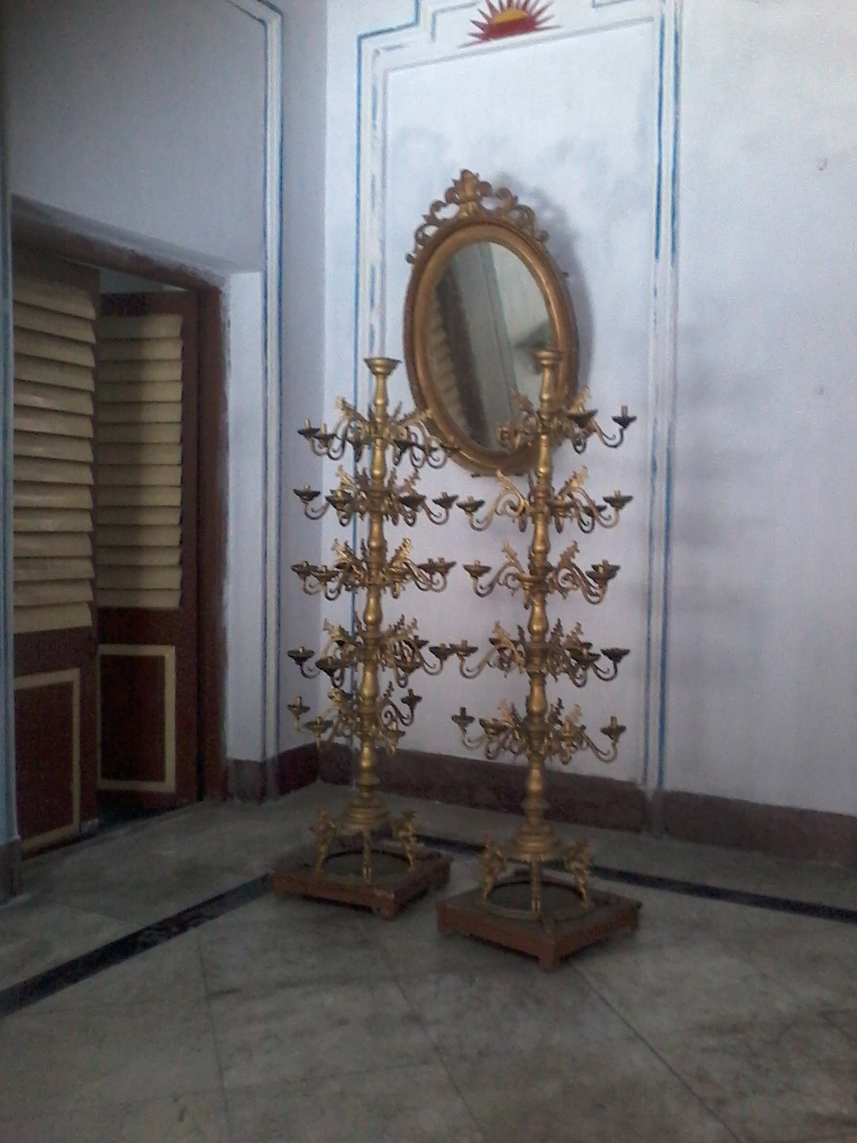 Photograph during Wiki Photo Walk in Kolkata 2019